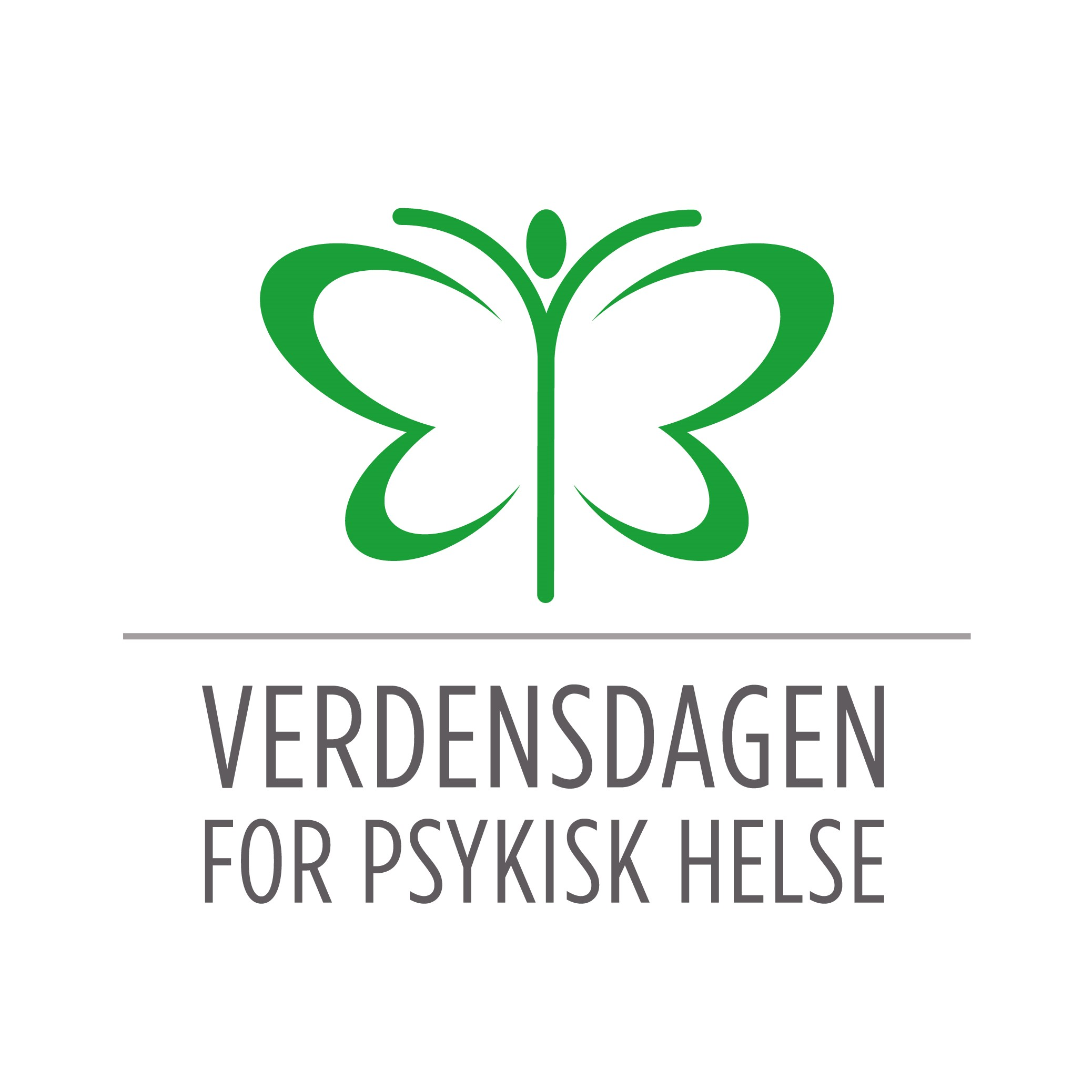 Verdensdagen for psykisk helse Norway